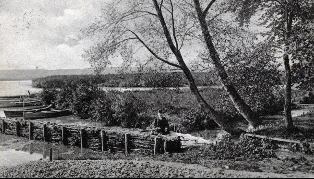 The former canal from Randers Fjord to the armory Nørrejyllands Tøjhus in Randers, Denmark. The armory was built 1801 and the canal and Tøjhushaven ('Armorygarden') the following years to bring heavy material from the fjord via the canal and ramps to the armory, built after the war with England (Battle of Copenhagen (1801)) Background: "Kanalen i Tøjhushaven" and "Nørrejyllands Tøjhus" (Danish) from Historiskatlas.dk/ On this old map nr. 26 is the armory, and the canal leads to the plant, Tøjhushaven, the area around the armory, Tøjhuset.